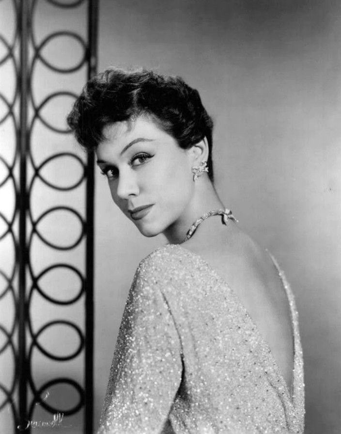 Photo of vocalist Patrice Munsel.